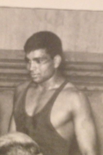 Mohammad Din; Pakistan Wrestling Champion and Olympiad